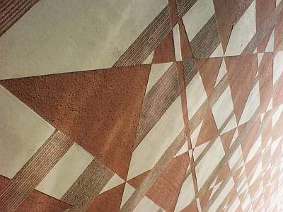 Facade structure of roman-catholic St. Mary Rosary church in the borrough of Seckbach in Frankfurt, Hesse, Germany